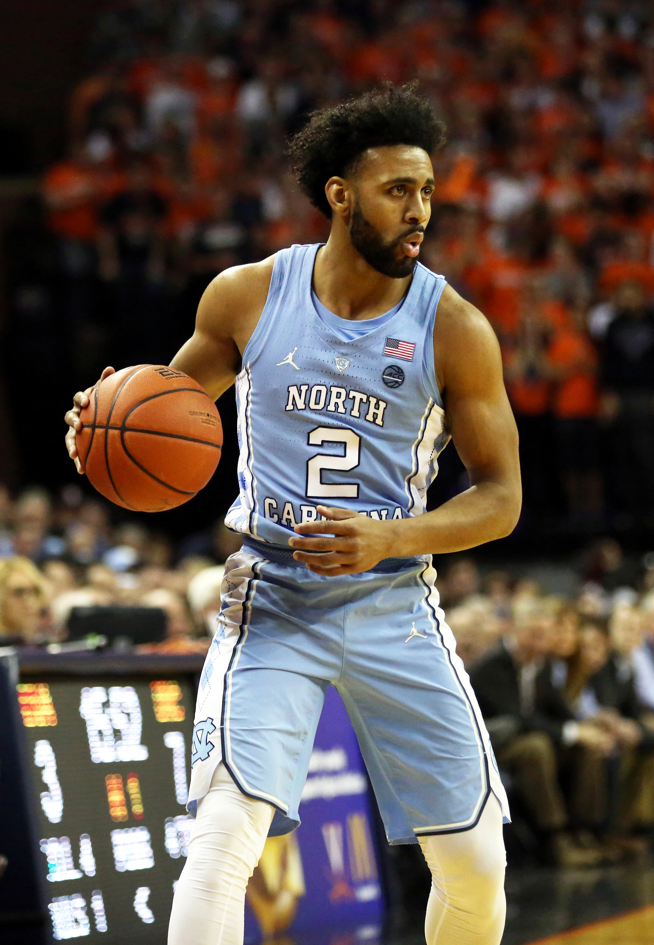 Joel Berry of University of North Carolina